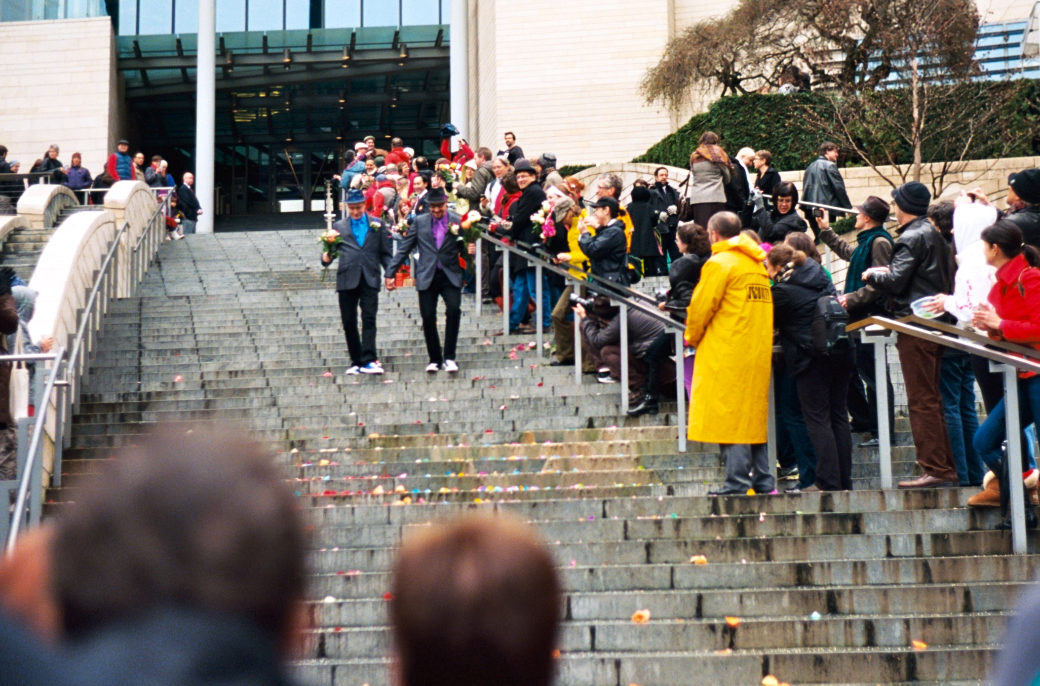 Recently married couple leaving the courthouse in Seattle are greeted by well-wishers on the first day of same-sex marriage in Washington state after enactment of Washington Referendum 74